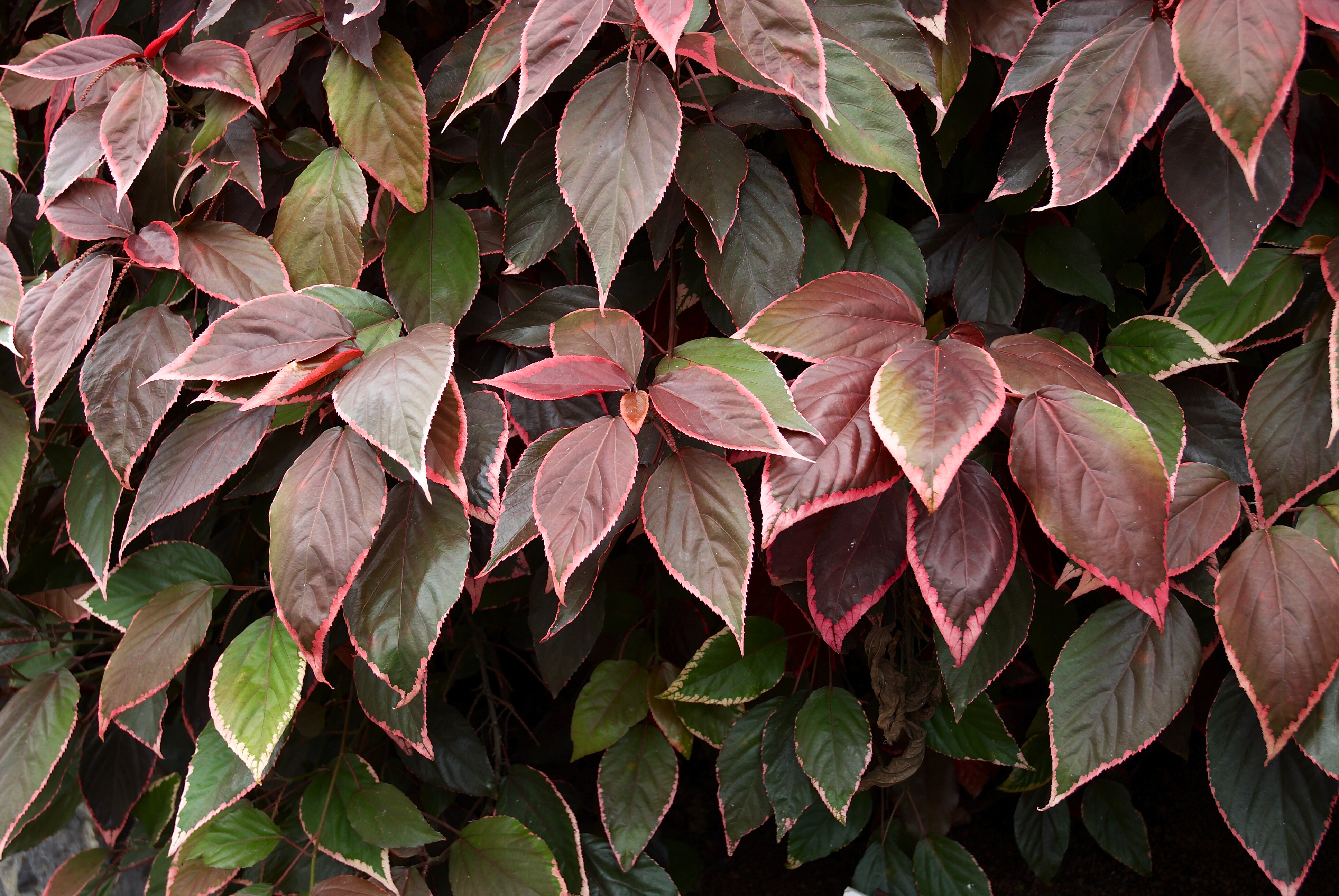 Acalypha wilkesiana 'Marginata'. Photo was taken in in Pueblochico, La Orotava Tenerife